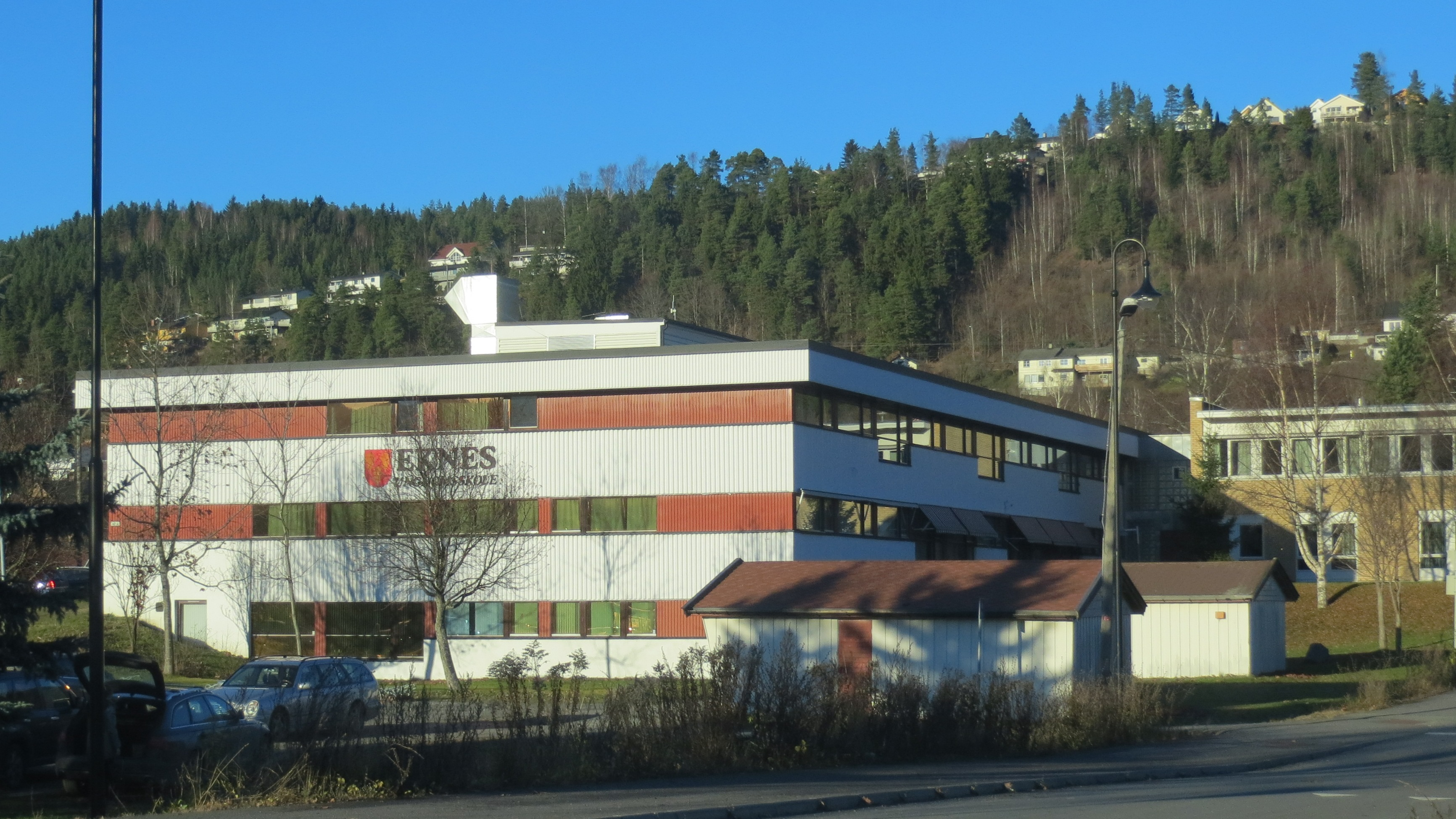 Image from Krogstadelva in Nedre Eiker municipality, just west of Drammen - Norway.